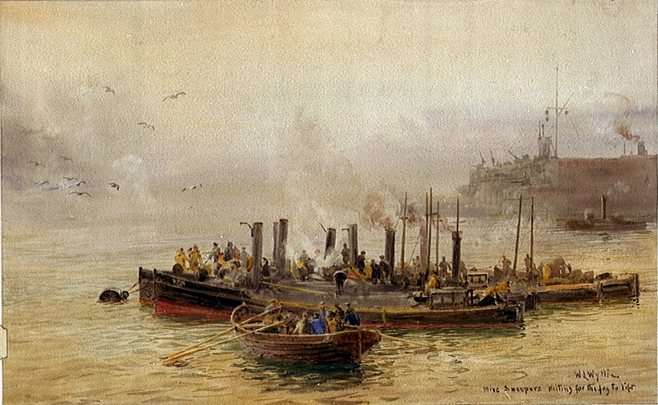 'Mine Sweepers waiting for the fog to lift'; off Fort Blockhouse, Portsmouth Inscribed, as title, and signed by artist, lower right. This atmospheric watercolour was reproduced (in black and white) in Wyllie and M.F. Wren's 'Sea Fights of the Great War' (1918) f. p. 40. It shows about half a dozen harbour launches tied to a single buoy off Fort Blockhouse, at the entrance to Portsmouth Harbour, with more men coming aboard in a large rowing barge, as they wait for morning fog to clear. They were not minesweepers in the technical sense: their job was to inspect the approach channels to the harbour for any signs of suspicious acitivity and their only 'minesweeping' equipment was grappling hooks and small marker buoys to mark anything they found.